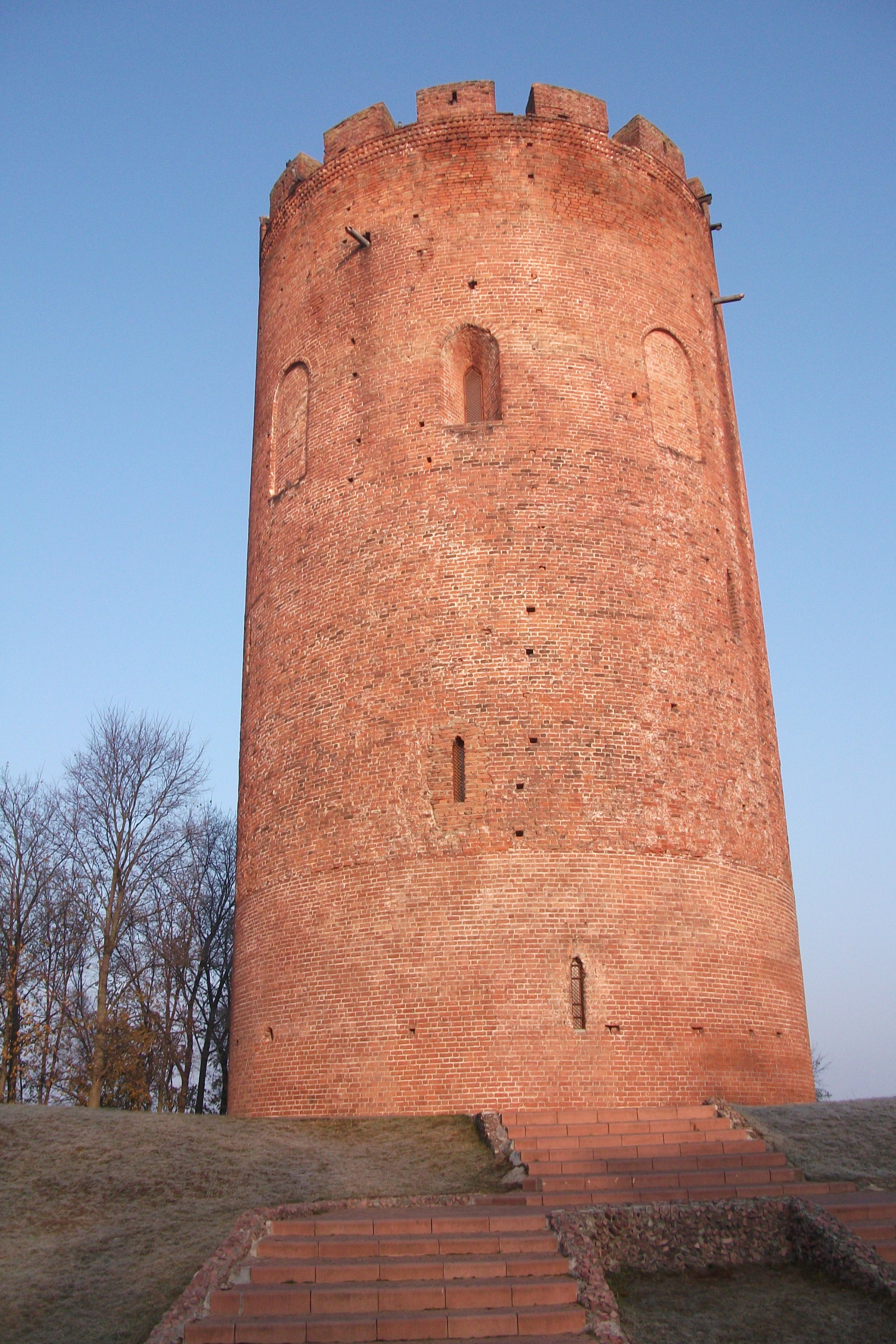 Tower of Kamyanets